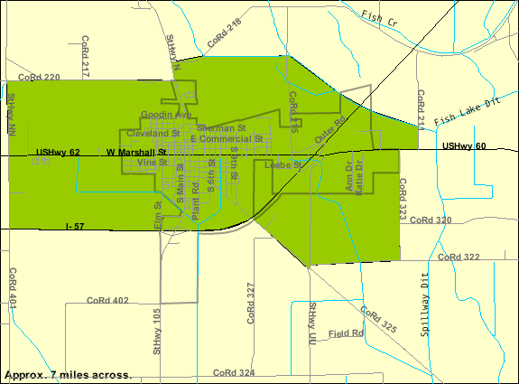 U.S. Census Map of Charleston, Missouri